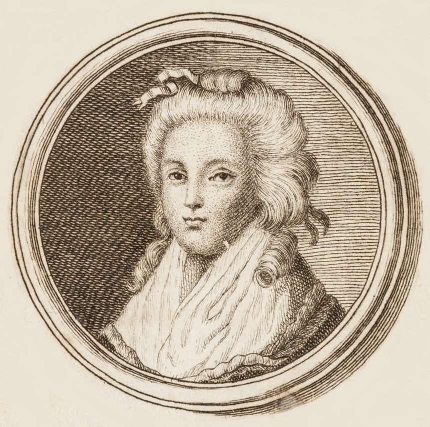 Portrait of Lorenza Feliciani, wife of Cagliostro